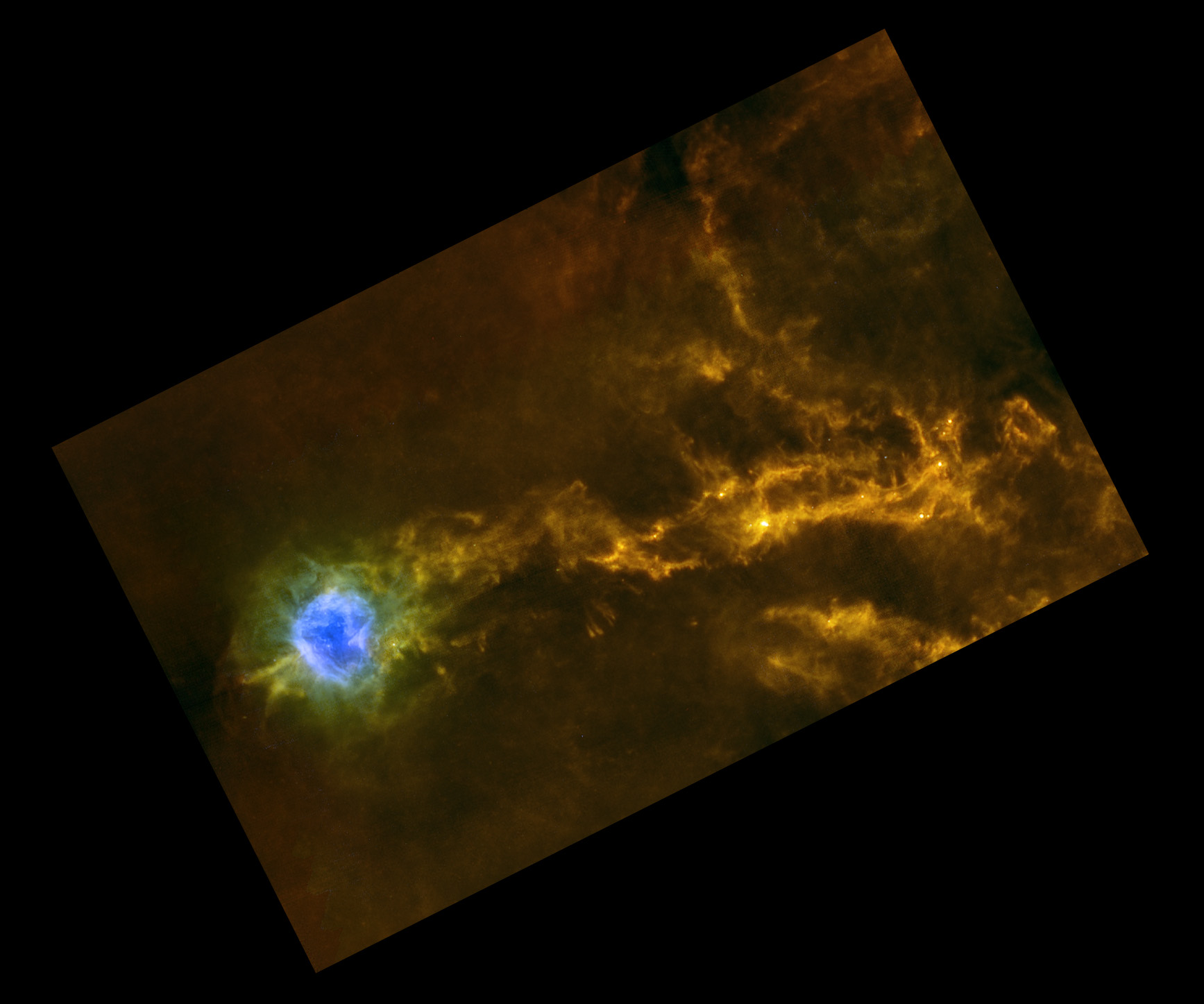 Dense filaments of gas in the IC5146 interstellar cloud can be seen clearly in this image taken in infrared light by the Herschel space observatory. Stars are forming along these filaments. The blue region is a stellar nursery known as the Cocoon nebula. This image was taken by ESA’s Herschel space observatory at infrared wavelengths of 70, 250 and 500 microns.